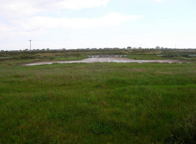 Site of Lydd on Sea Station All that really remains since the platforms were demolished in the 1980s is the former station forecourt road. The station was opened when the new branch loop was opened in 1937 in the expectation of population growth. When this failed to materialise the station was downgraded to a halt in 1954 and closed with the rest of the branch in 1967